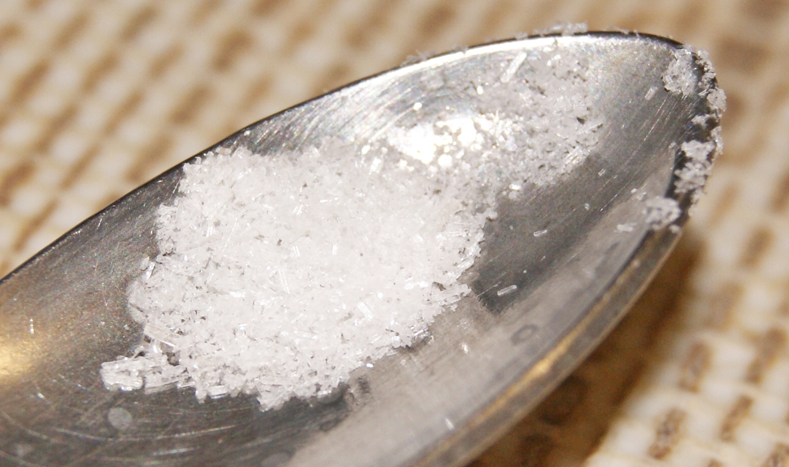 Vanillin